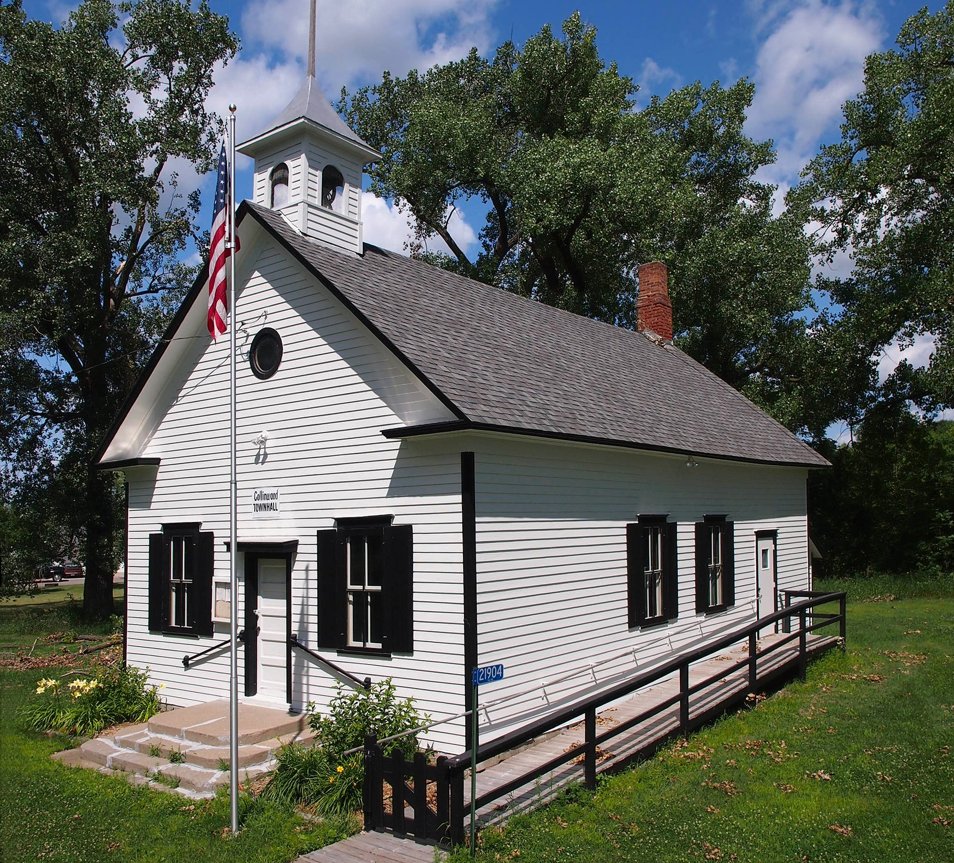 District No. 48 School (now Collinwood Town Hall), 21904 746th Ave, Collinwood Township, Minnesota, USA. Viewed from the southwest.